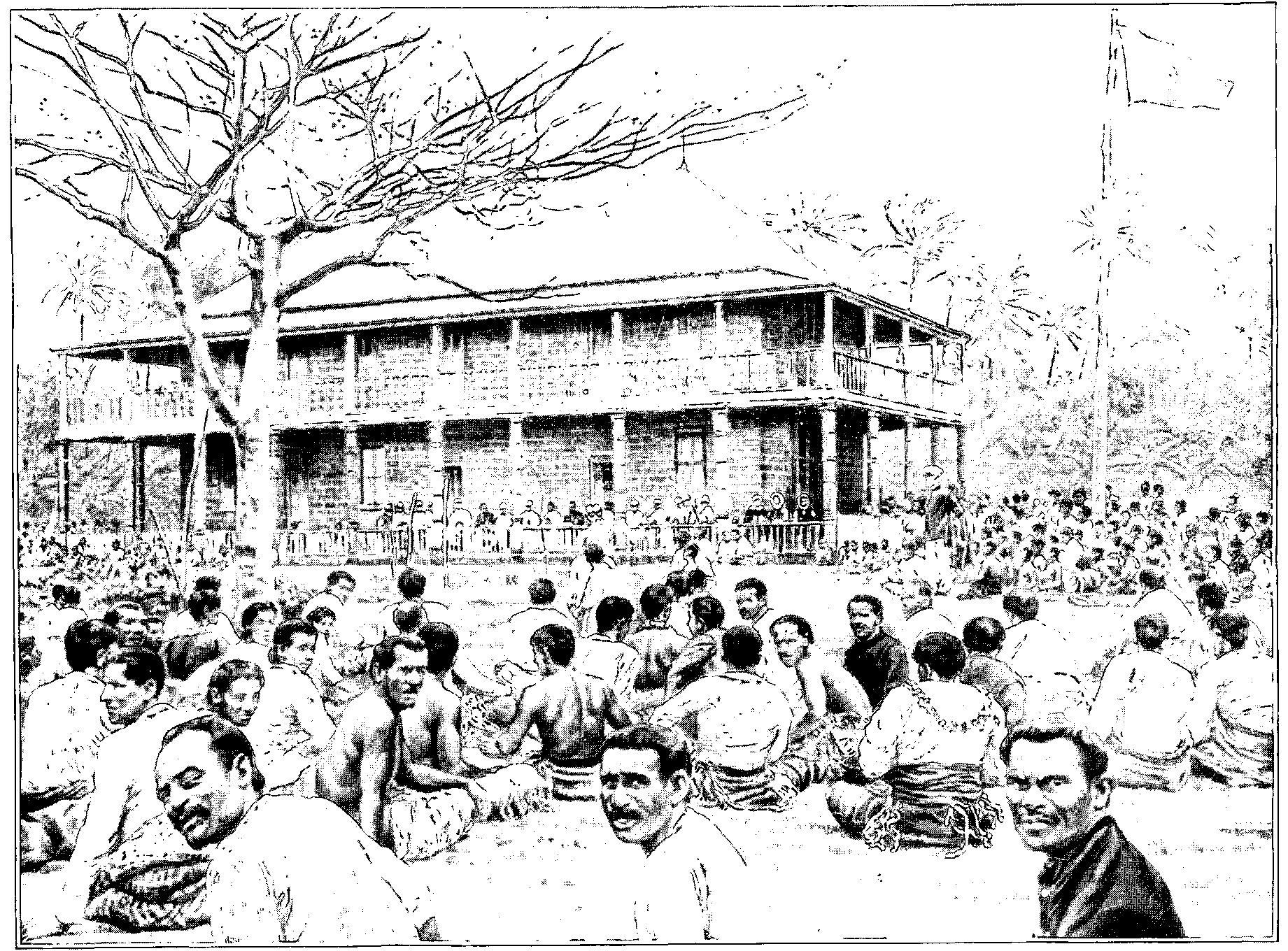 Public meeting in front of the royal palace, place Sagato Soane in Mata-Utu, Wallis island, 1900